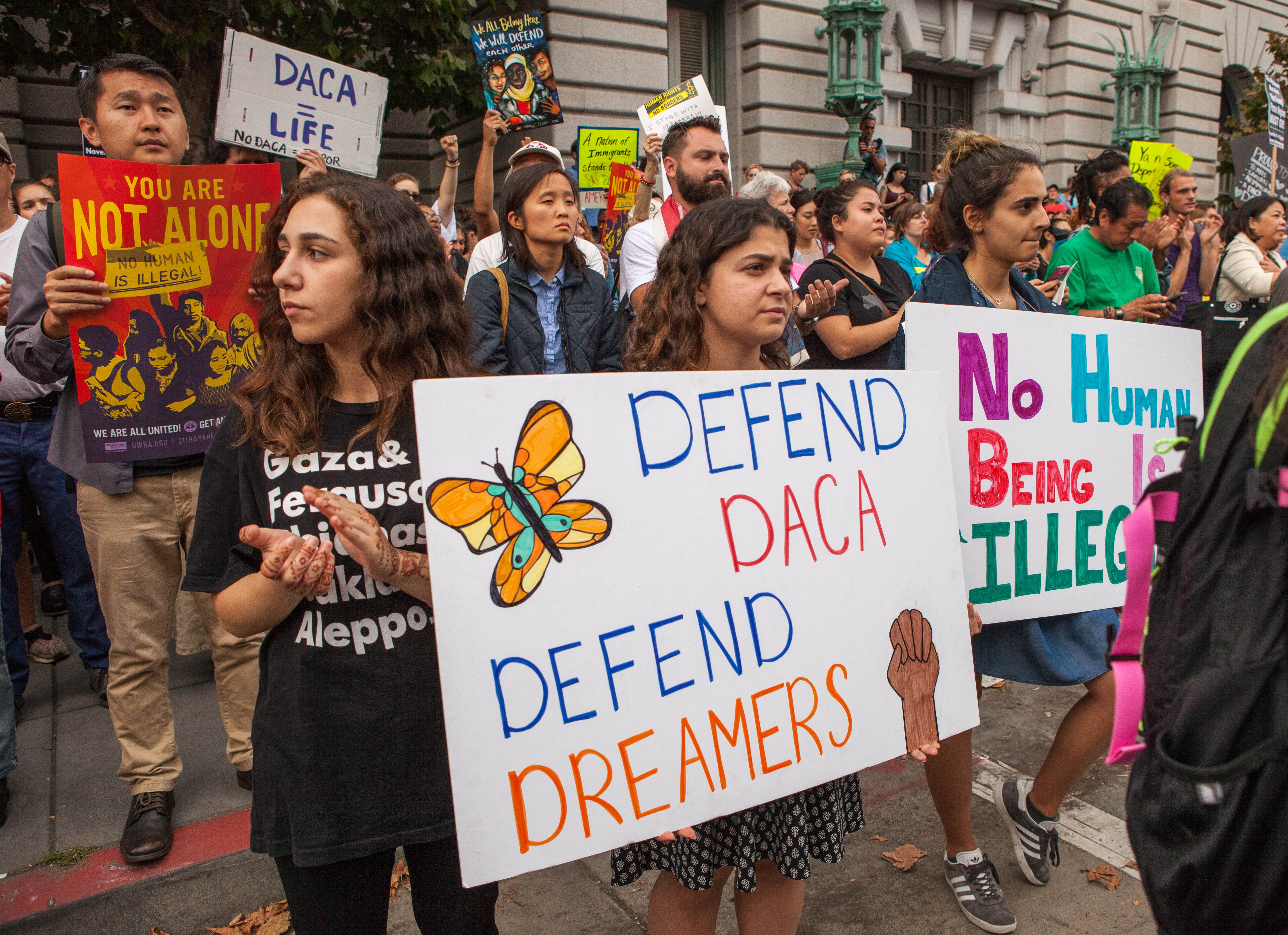 Protesters hold various signs and banners at a DACA rally in San Francisco.